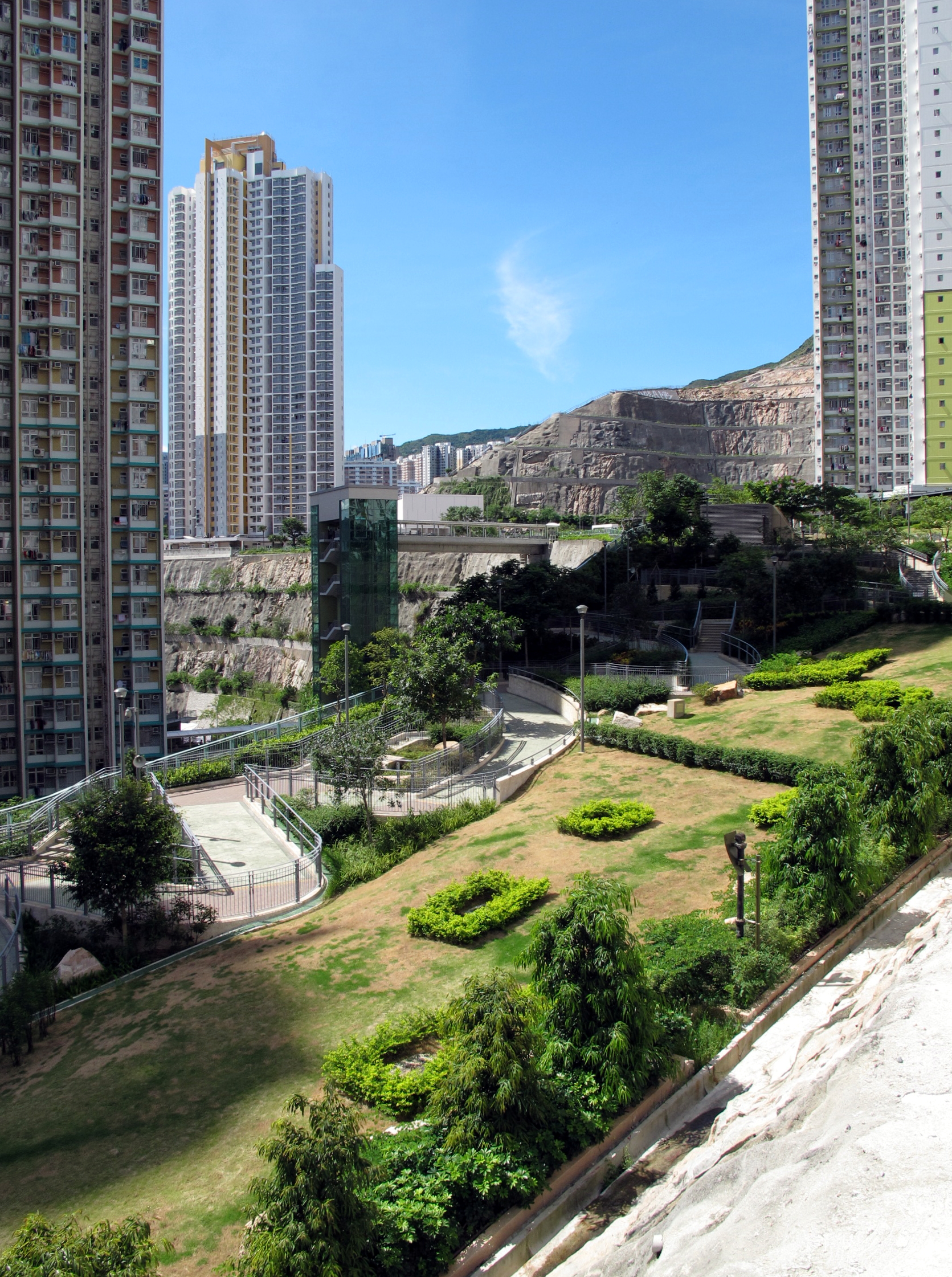 Choi Hei Road Park